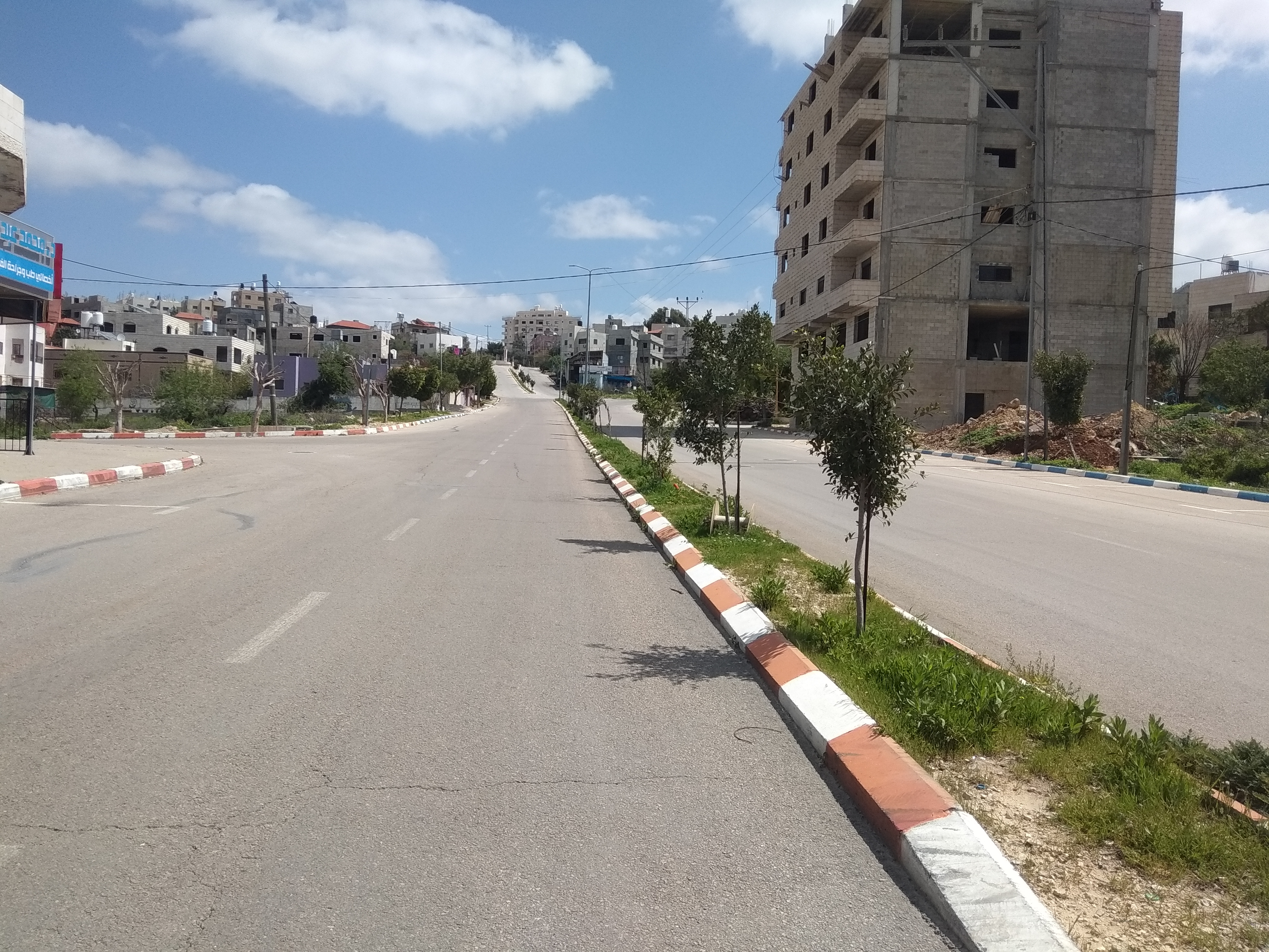 Al-Madīnah al-Munawwarah Street in the city of Salfit on March 25, 2020, is empty of people, in implementation of the mandatory quarantine decision due to the Corona virus pandemic in Palestine 2020